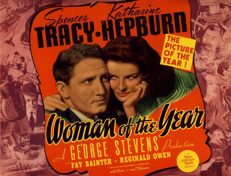 Original poster for the 1942 film Woman of the Year Public domain explanation If one views the whole poster, there does not appear to be a copyright notice included on it, as then required for protection. If there is any chance that the poster was copyrighted, under the terms of the 1909 Copyright Act (which was law until 1978) it would have had to be renewed 28 years after publication, otherwise it entered the public domain. A search for copyright renewal records of 1970 ([1],[2]) reveal no trace that this occurred.